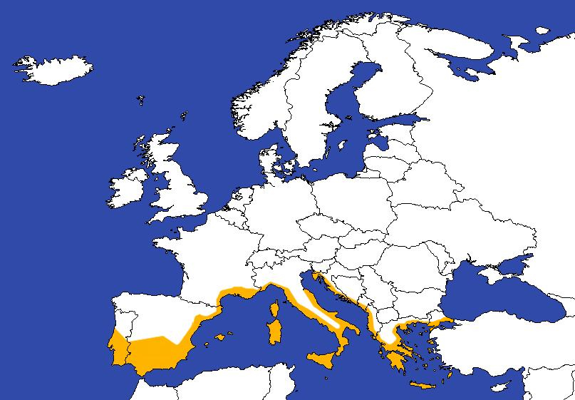 Mediterranean climate in South Europe - self-made image